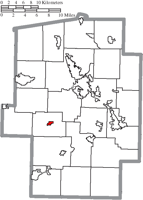 Map of the municipal and township boundaries of Tuscarawas County, Ohio, United States, as of the 2000 census, with the location of the village of Stone Creek highlighted. Township borders are shown only in unincorporated areas in order to differentiate incorporated and unincorporated areas more clearly.